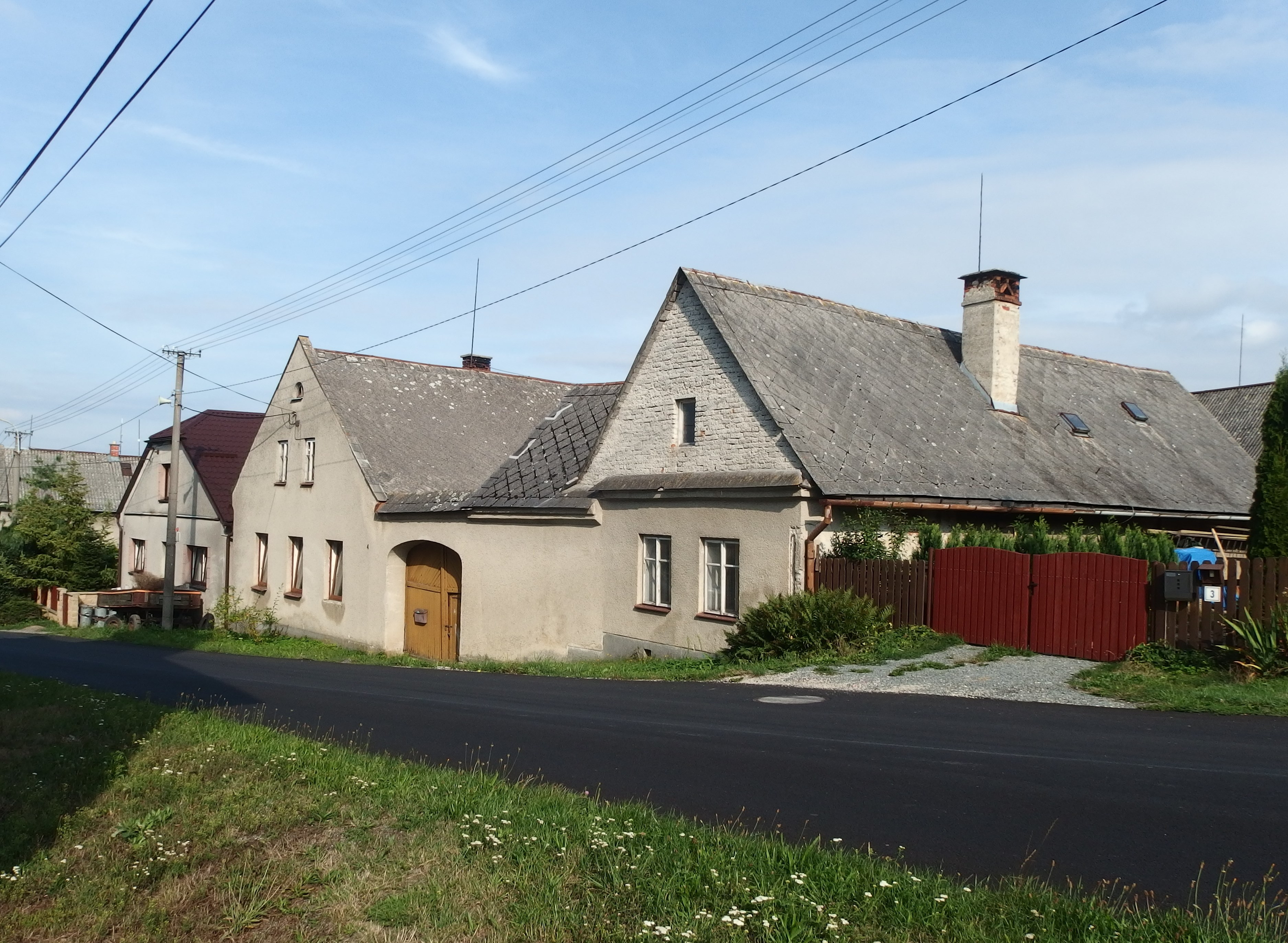 Jestřebí, Šumperk District, Czechia, part Pobučí.